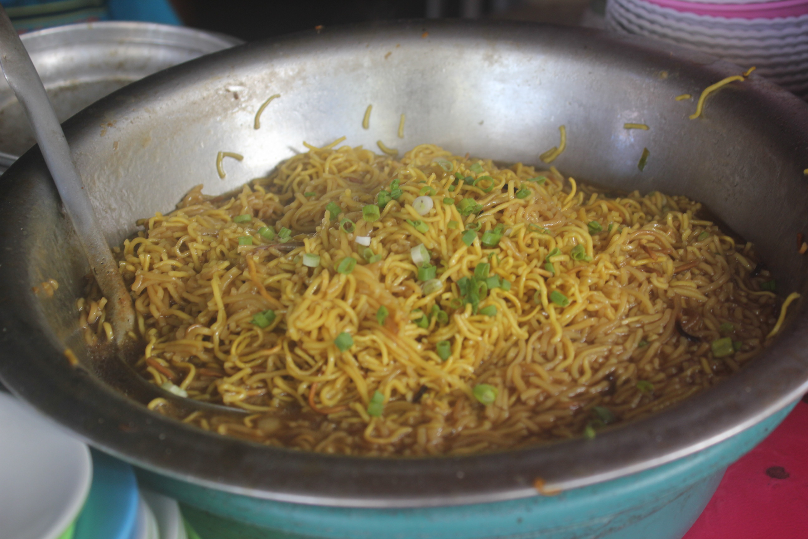 Freshly cooked Pancit Bato in Nabua, Camarines Sur.